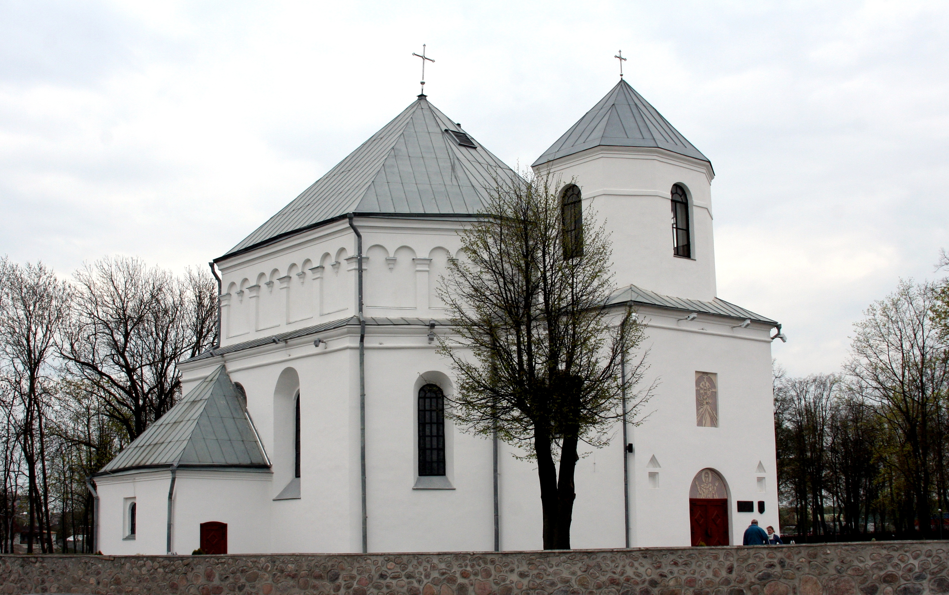 Church in Smarhoń, Belarus